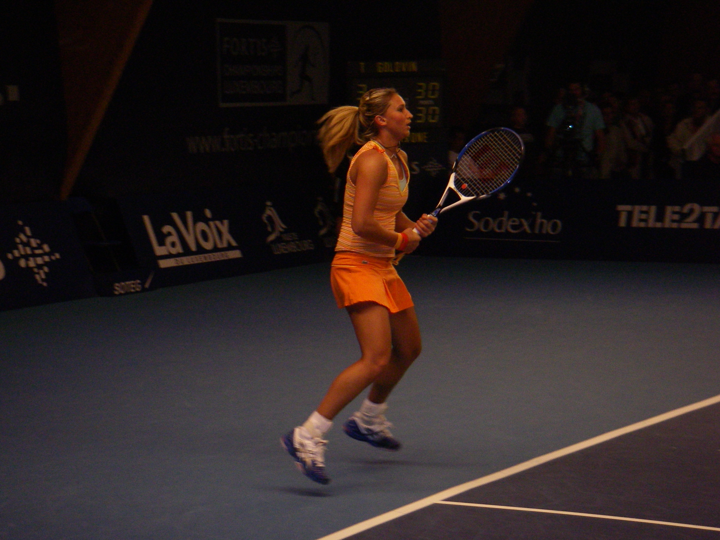 Tatiana Golovin at Fortis Championships Luxembourg, September 2007